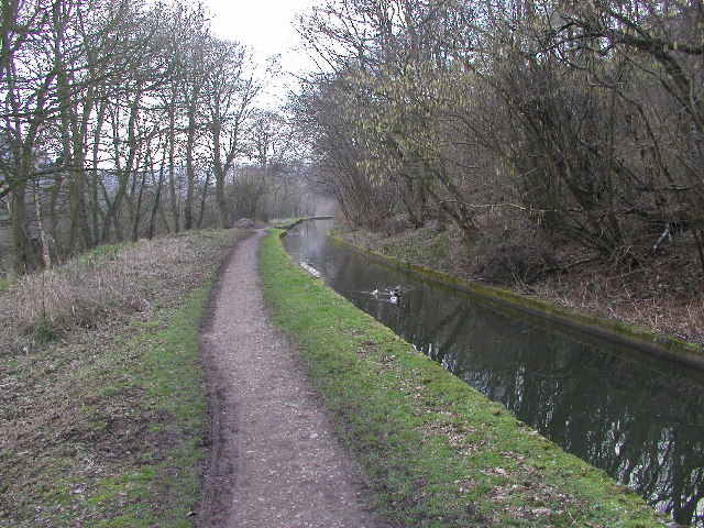 The Caldon Canal. Just north west of Froghall.